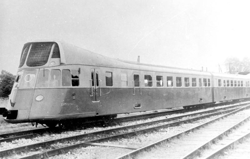 Railcar Renault type ABV n° 10, PO ZZ PEty 23879-81, 1937, future ZZ R 131-133, then SNCF X 131; the 2 others were destroyed in 1944.